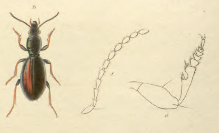 Cascellius gravesi, from: (1841). "Descriptions, &c. of the Insects collected by Captain P. P. KING, R.N. F.R.S. & L.S. in the Survey of the Straits of Magellan". Transactions of the Linnean Society 18: 181-205.